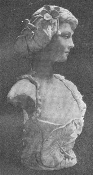 A sculpture bust of Lotus by Emma Cadwalader-Guild